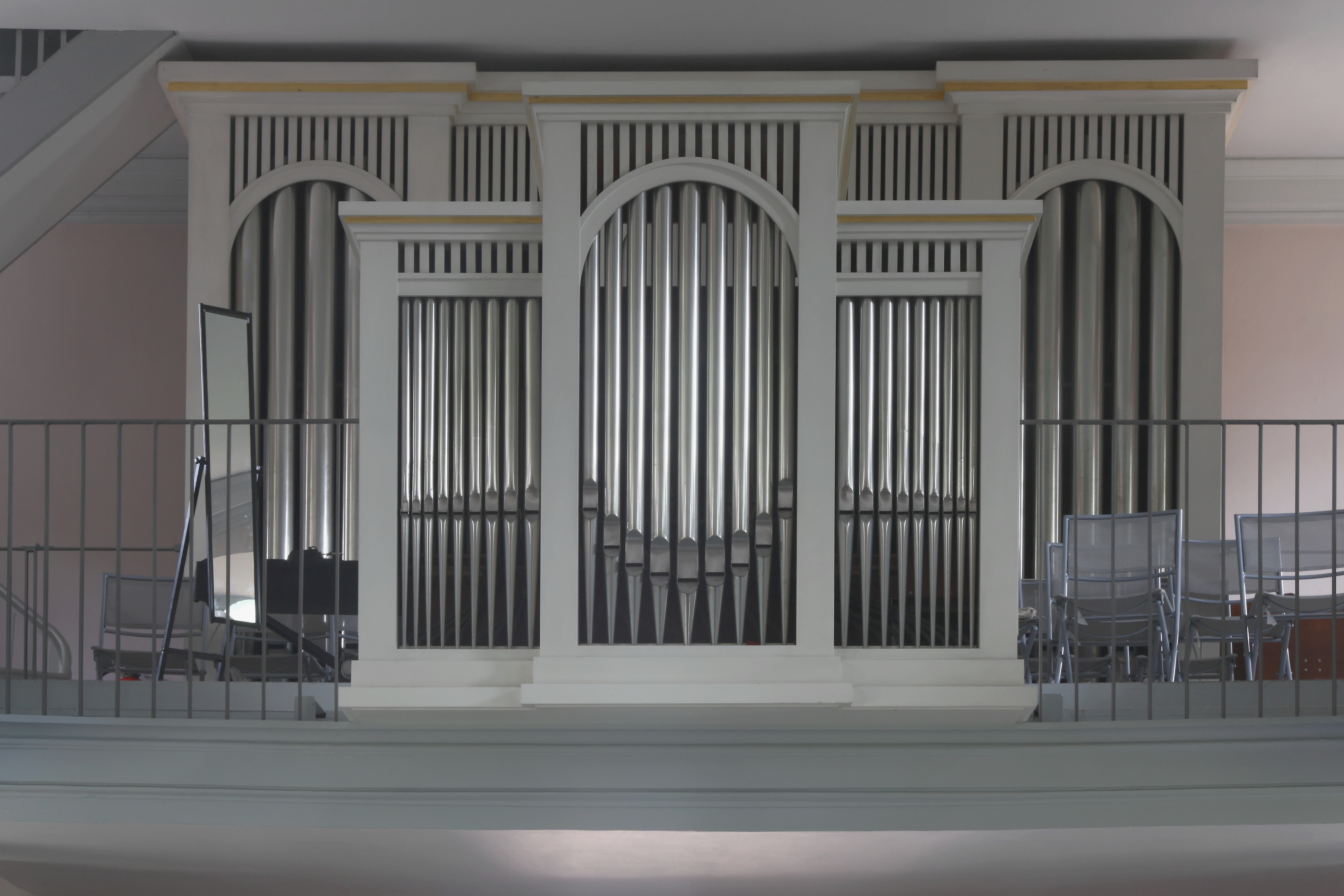 Pipe organ in the Church of Quickborn, Germany